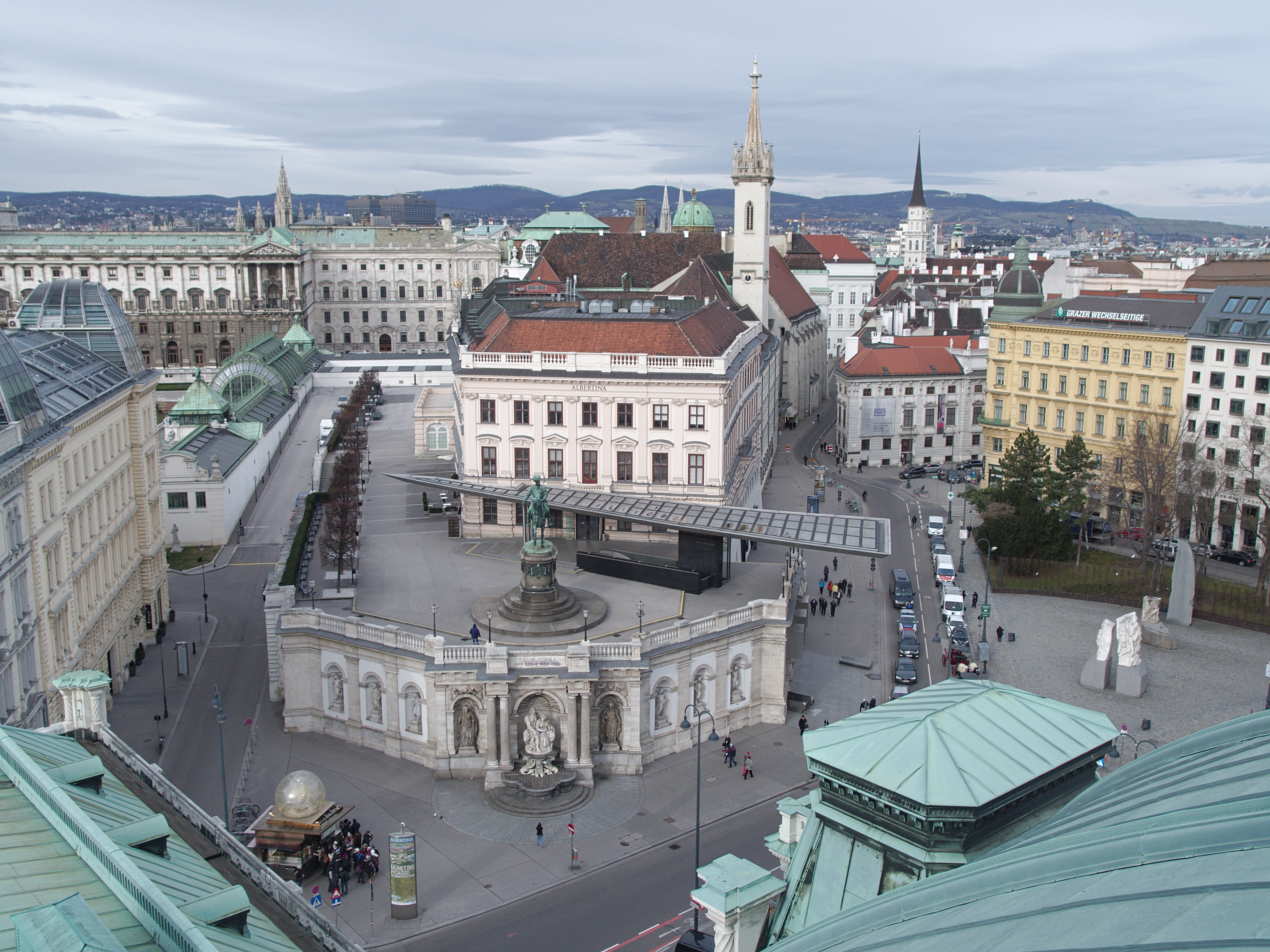 Albertina with Albrechtsbrunnen and Augustinerkirche, view from the roof of the Staatsoper.